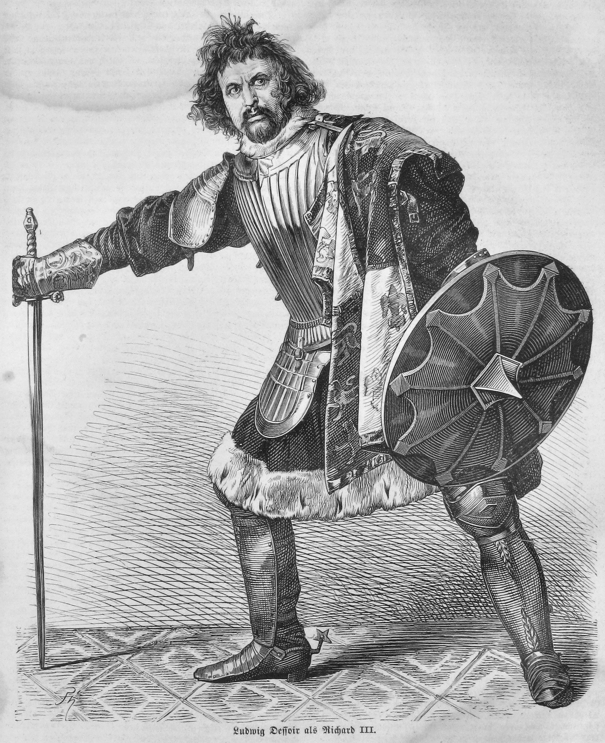 caption: "Ludwig Dessoir als Richard III."